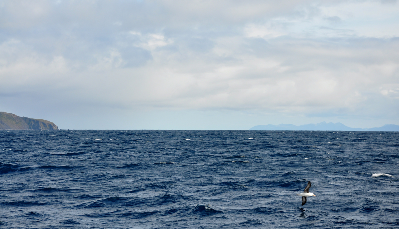 Le Maire Strait (Mitre Peninsula of Tierra del Fuego on the right, Isla de los Estados on the left)